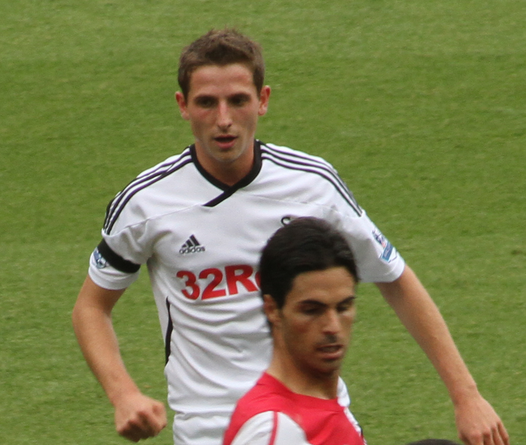 Joe Allen and Ashley Williams of Swansea defend against Mikel Arteta of Arsenal